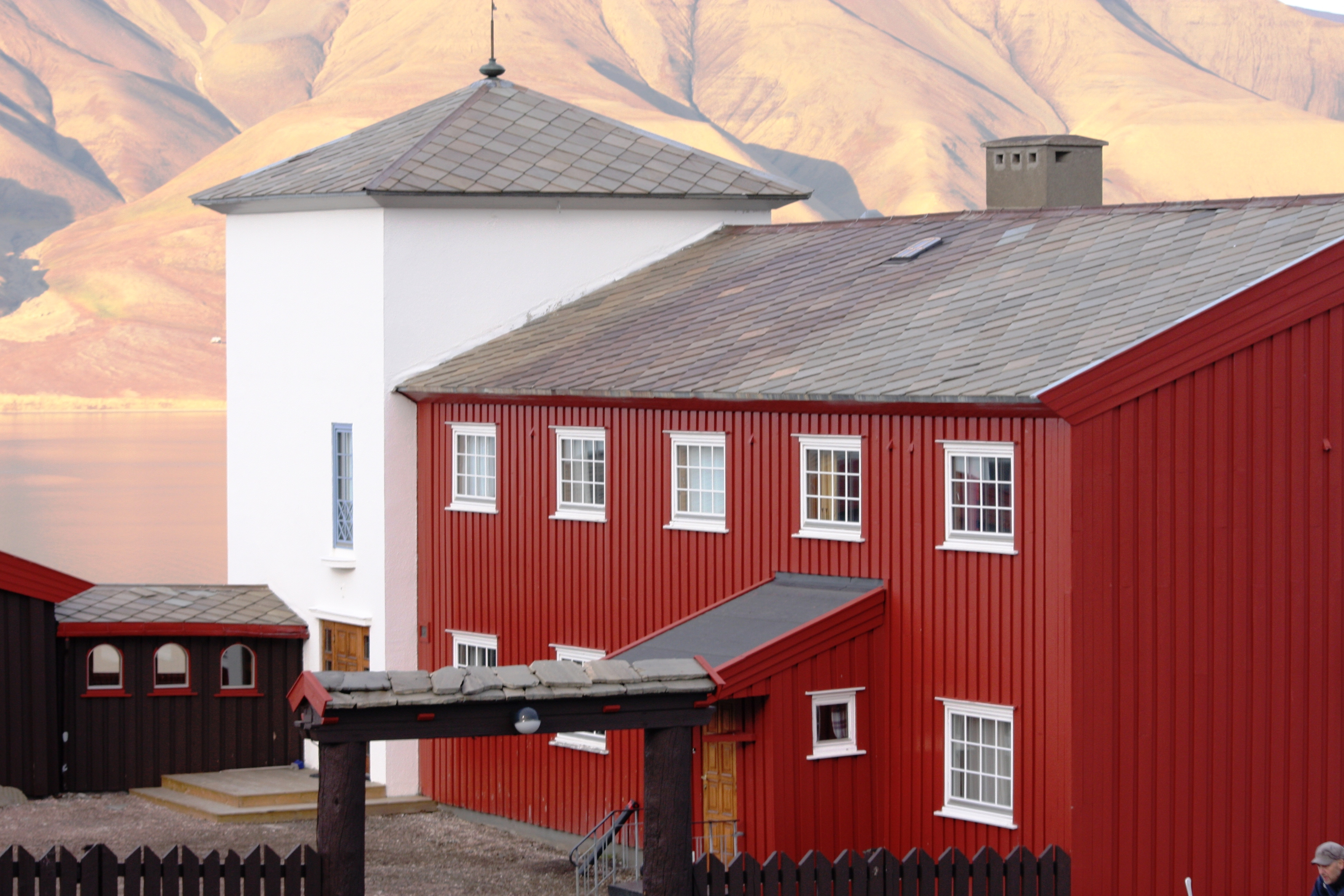 Sysselmannsgården, the Old Governor House, Longyearbyen, Svalbard